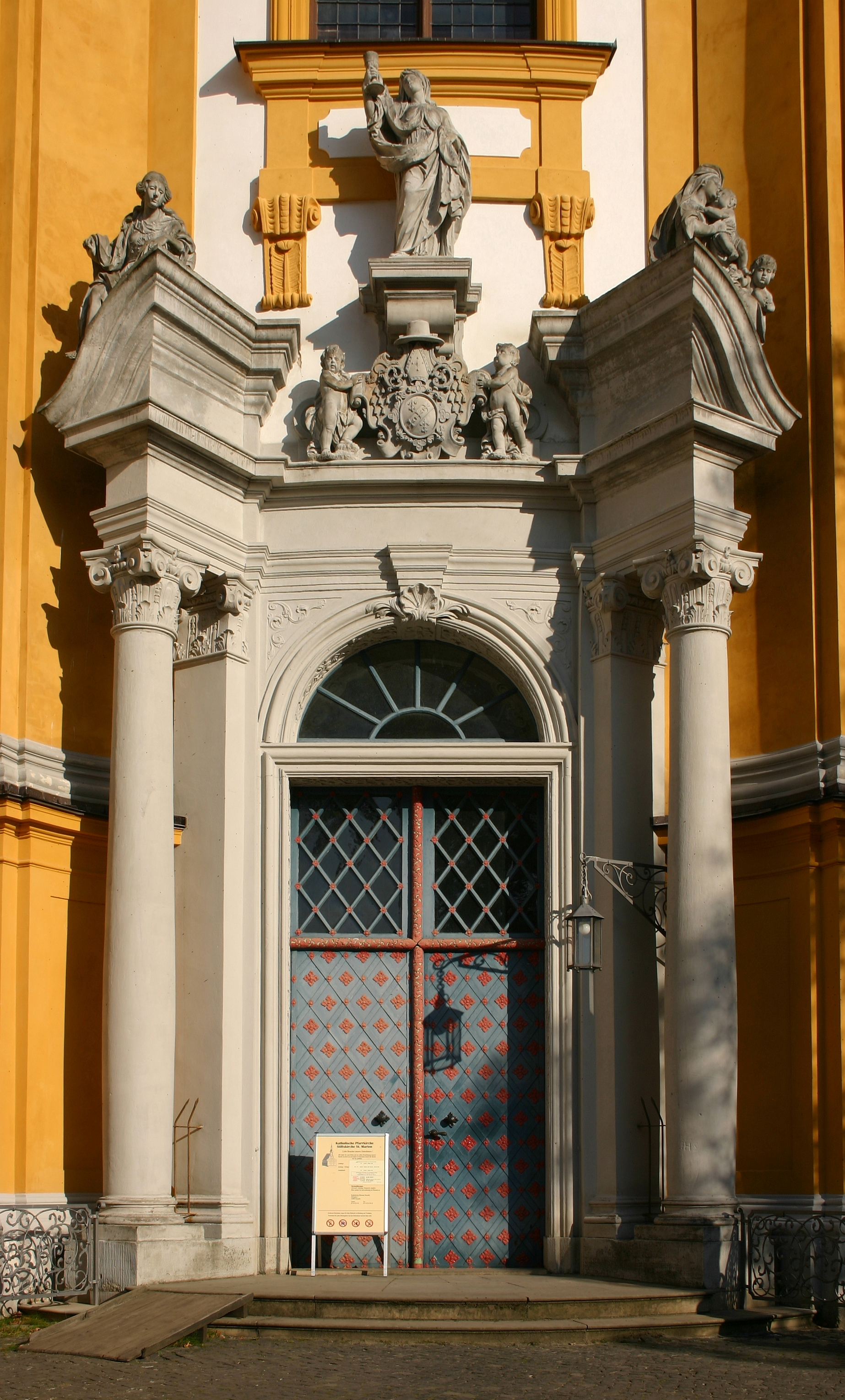 Main portal of Neuzelle abbey.